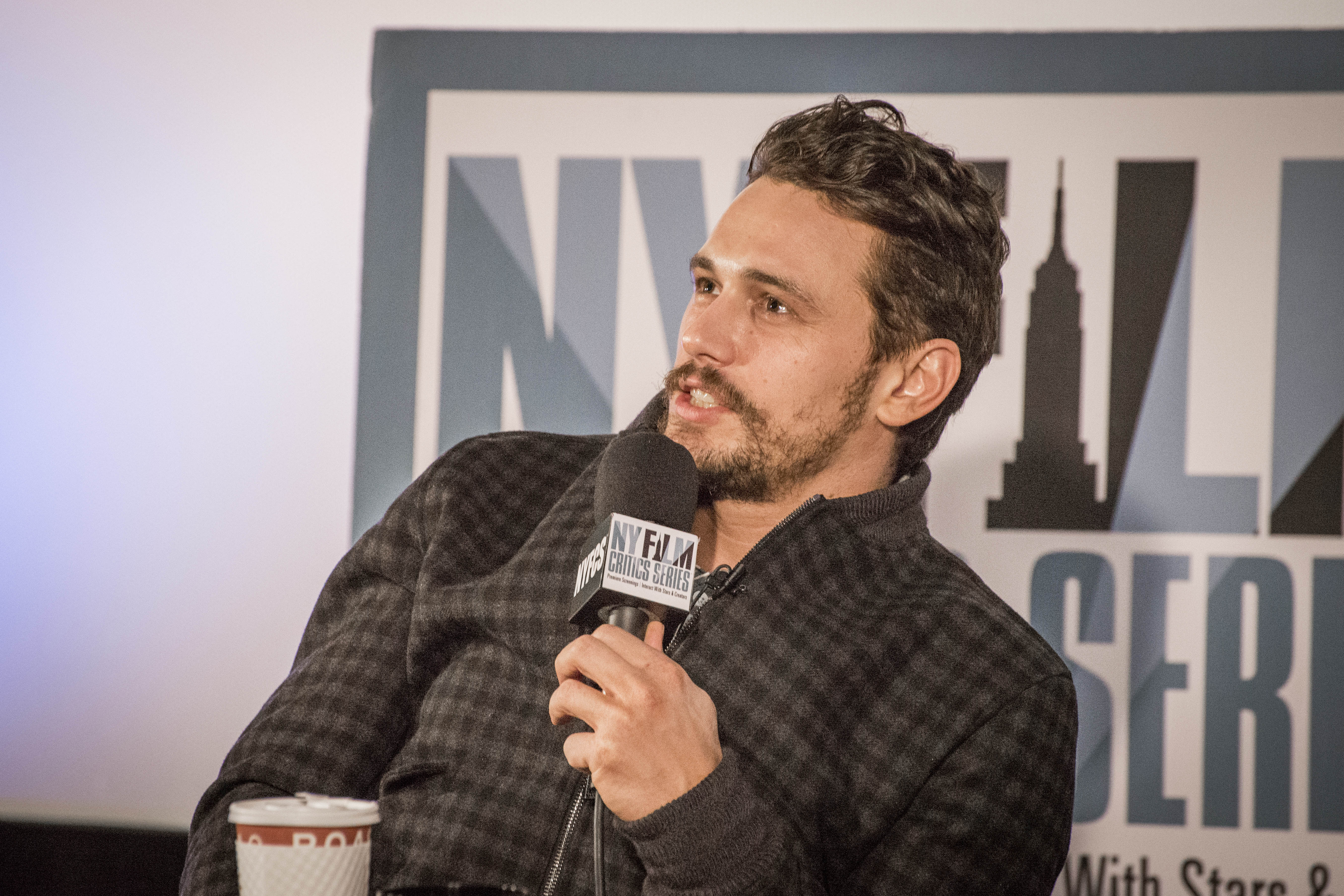 James Franco at the New York Film Critics Series première of "Child of God" in July 2014.